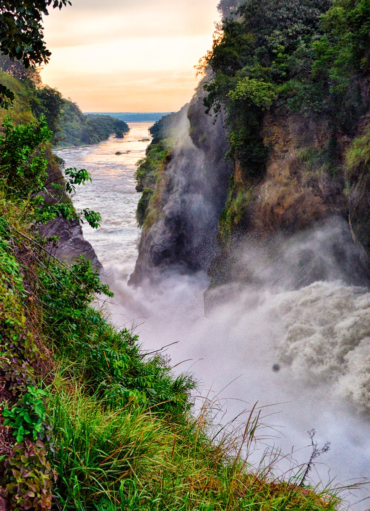 Murchison Falls, Nile River, Uganda.